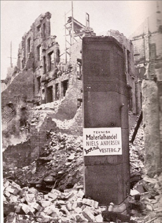 The bombing of Guldsmedegade, Aarhus 1945